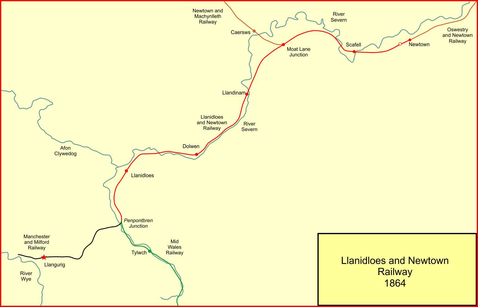 System map of the Llanidloes and Newtown Railway, Wales, in 1864